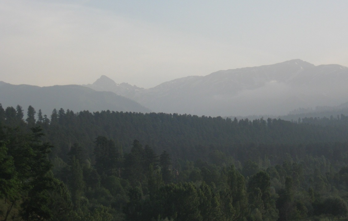 The Hirpora Wildlife Sanctuary is located in Shopian district of Jammu and Kashmir. The Mughal Road cuts through the sanctuary. Hirpora Village is located on the sides of Mughal Road in Lower Hirpora area.